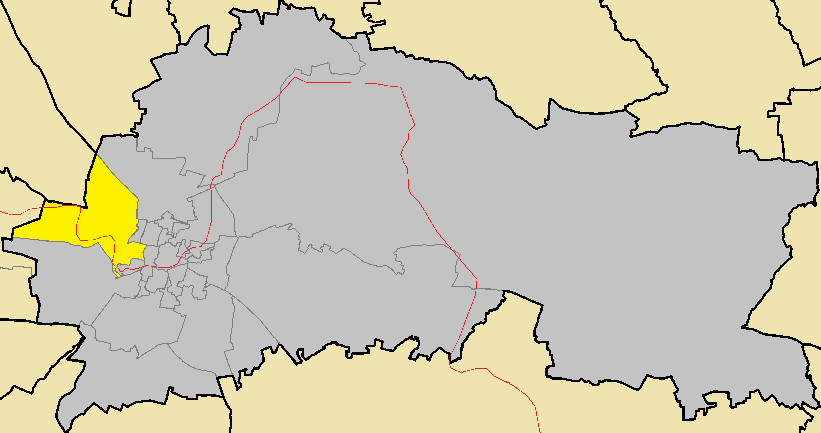 Arab Ahmet in Nicosia Municipality (de jure).